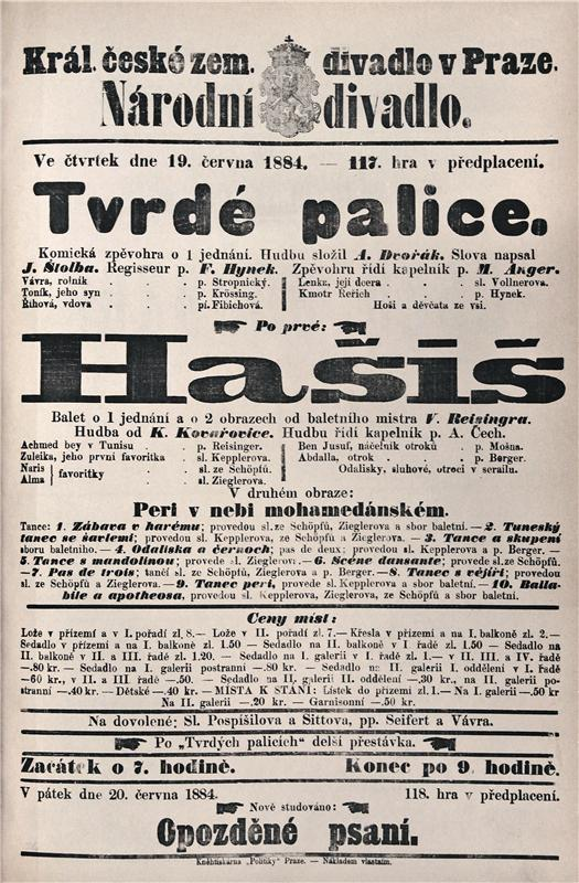 First night theatre poster for Karel Kovařovic's ballet "Hašiš", premiered at the Prague National Theatre on June 19, 1884 (in combination with Antonín Dvořák's opera Tvrdé palice / The Stubborn Lovers)